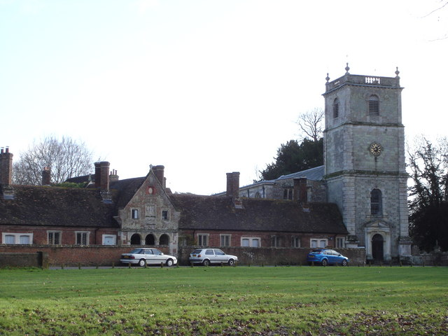 Wimborne St Giles Church and Alms Houses